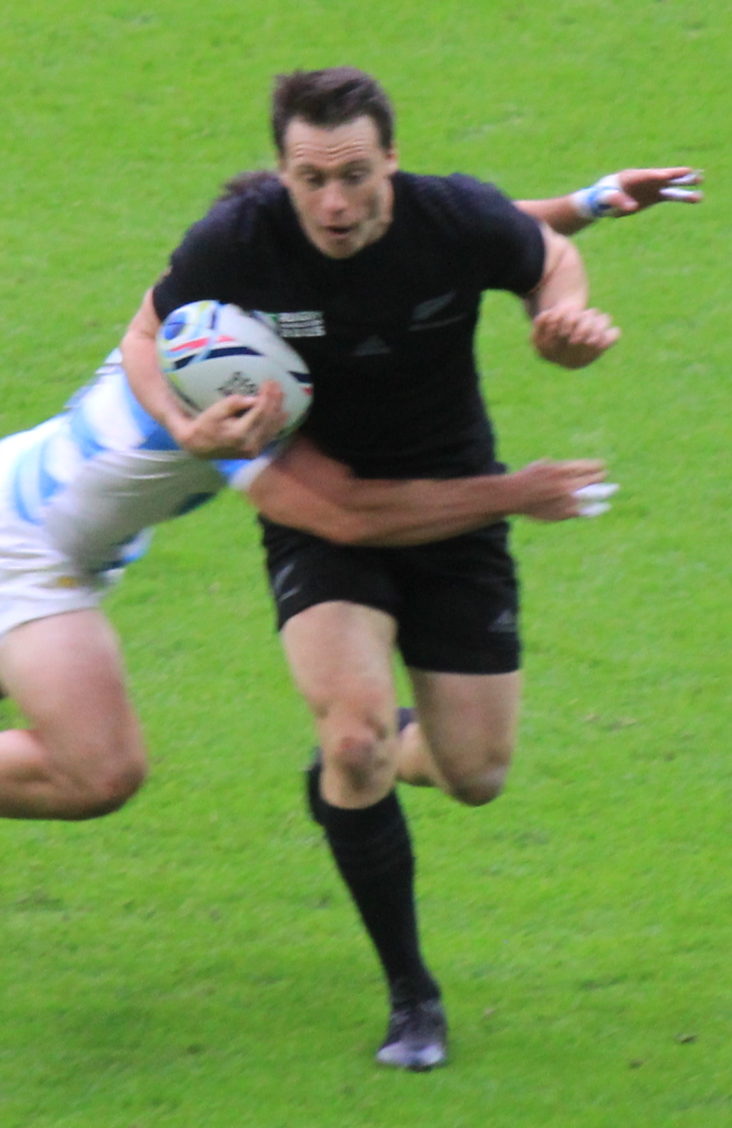 New Zealand international rugby union footballer Ben Smith playing in 2015 Rugby World Cup game New Zealand vs Argentina at Wembley Stadium in London.